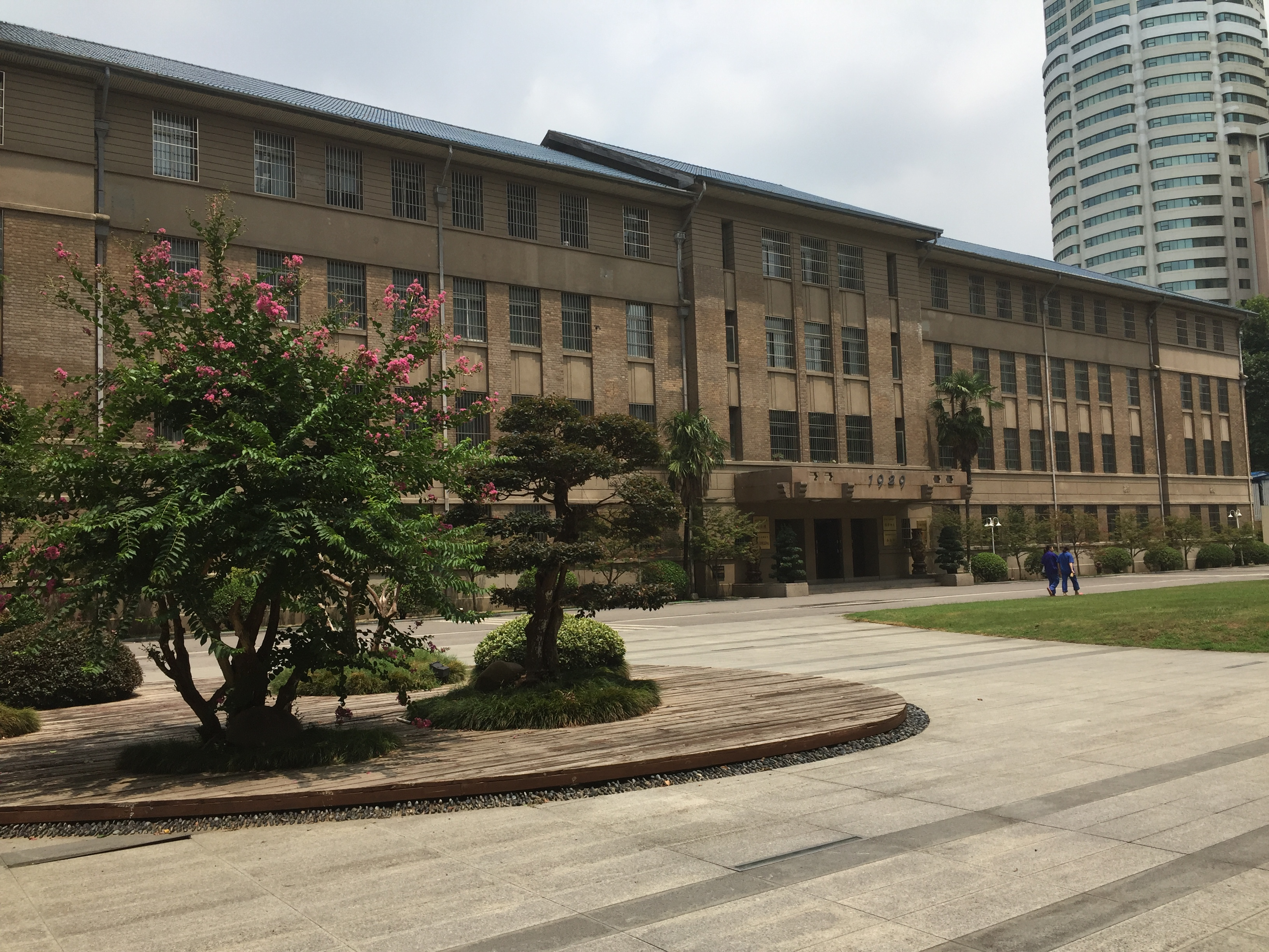 Former site of Ministry of Health of Nationalist Government in Xuanwu District, Nanjing